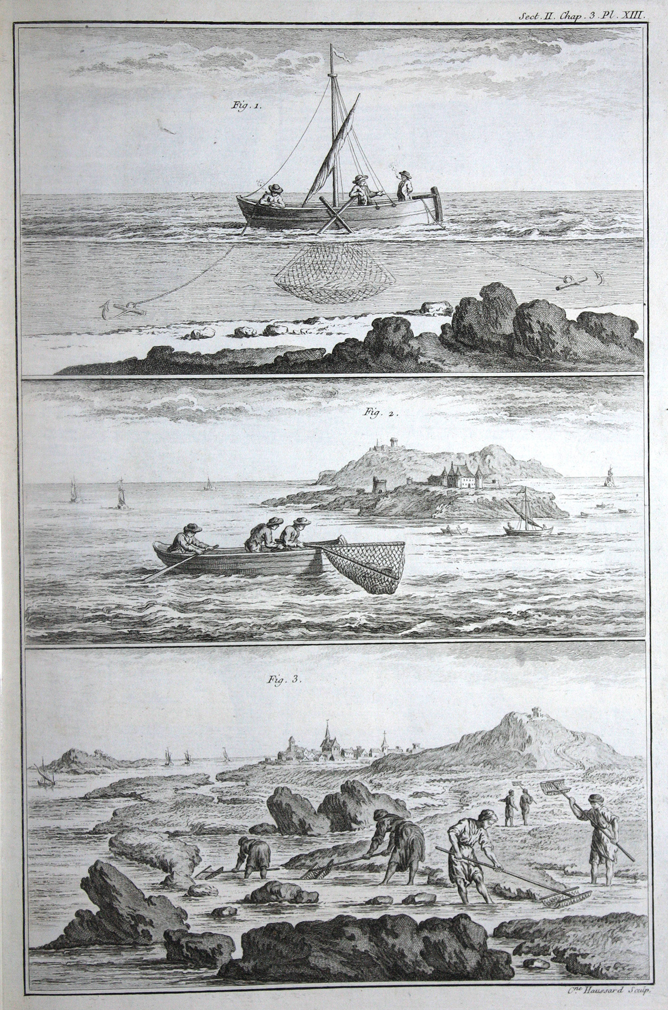 No known copyright restrictions. Please credit UBC Library as the image source. For more information, see Alternative Title: Part 1, Section 2, Plate 13 Description: Fig. 1. Pêche du Haveneau, dans un bateau, par le travers duquel on place ce filet. Fig. 2. Autre maniere, où le même filet est établi à l'arriere d'un bateau nommé Acon. On voit dans la figure 3, des femmes & filles occupées à prendre entre les roches, de grosses Chevrettes, avec une espece de Truble nommé Treuille ou Trulot: dont nous avons parlé page 32. Creator: Henri-Louis Duhamel Du Monceau and Jean-Louis De La Marre Date Created: 1769-1782 Source: Traité général des pesches: et histoire des poisons qu'elles fournissent, tant pour la subsistance des hommes, que pour plusieurs autres usages qui ont rapport aux arts et au commerce. Permanent URL